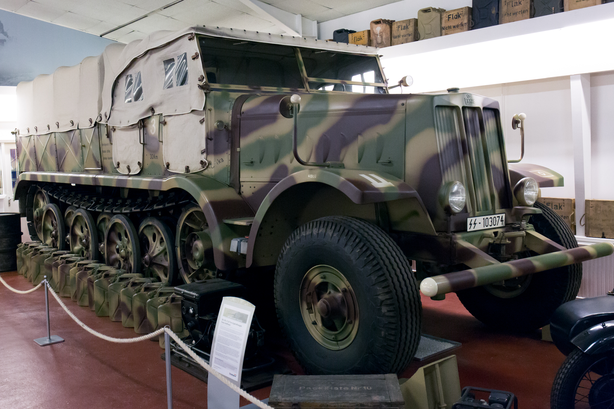 Sd. Kfz. 9 "Famo" Halftrack, 18-ton tractor unit)